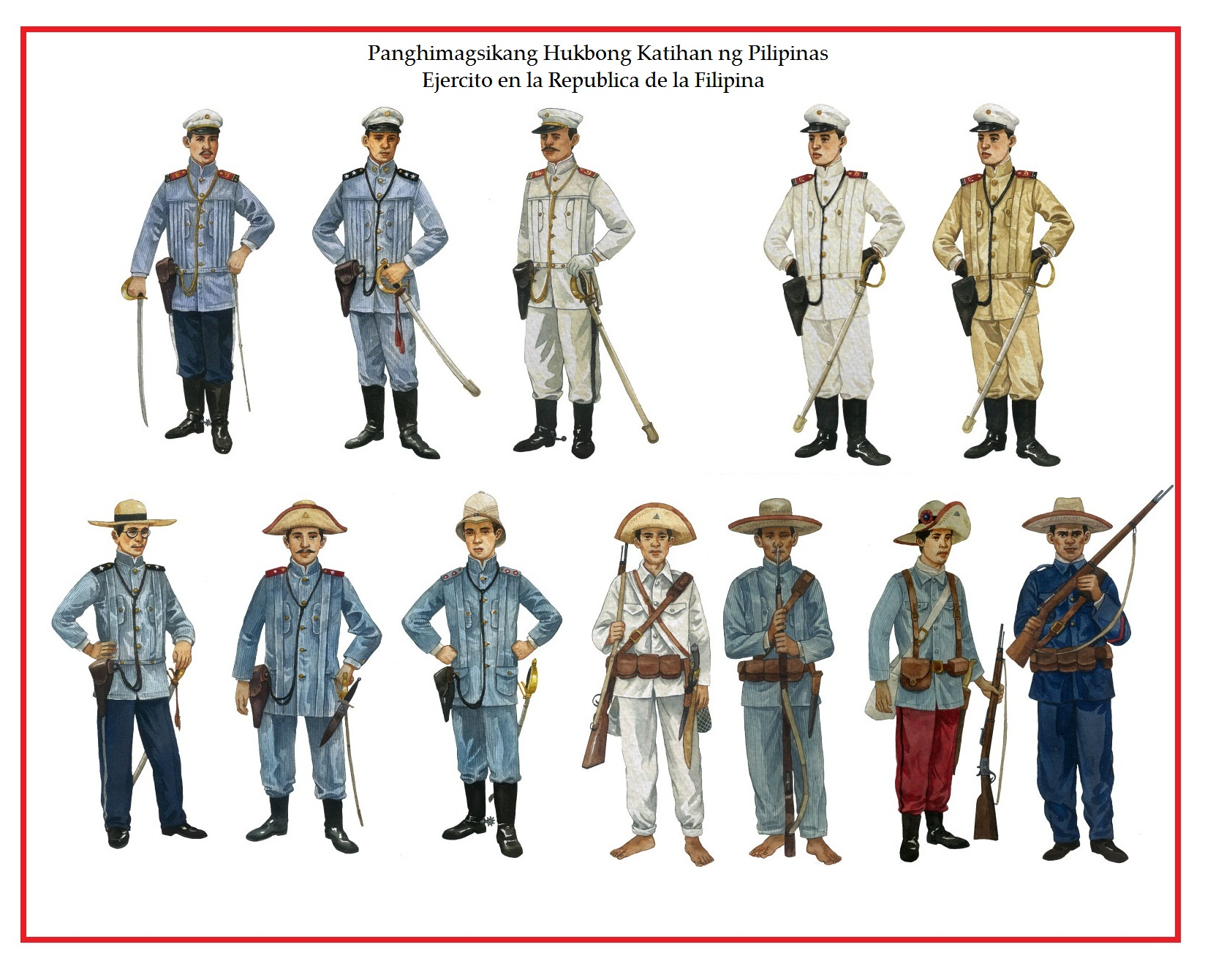 Early uniforms of the Filipino revolutionaries were inspired by the Spanish guayabera and guerrera. Army ranks were shown on the cuffs on sleeves of the uniforms, similar to Spanish Army.Upon the establishment of the Philippine Revolutionary Government and its Department of War on June 23, 1898, the uniforms issued by the army of Emilio Aguinaldo's government were only made from available materials at the time. Uniform designs also differed, depending on the commanders from whom the soldier received orders. General Antonio Luna, the Director of War, issued a standardization of army uniforms designed by his brother, Juan Luna, and reflecting the chain of command of what was to be the Army of the First Republic (called Ejercito Filipino). The regalia included the epaulettes, ranks, pins, and insignias of the army. The Decree of November 25, 1898, signed by President Aguinaldo, formalized Juan Luna's designs. These uniforms were worn by the army of the First Republic well into the Philippine–American War (1899–1902) and afterwards, when guerrilla war was waged by General Miguel Malvar after President Aguinaldo's capture in 1901.